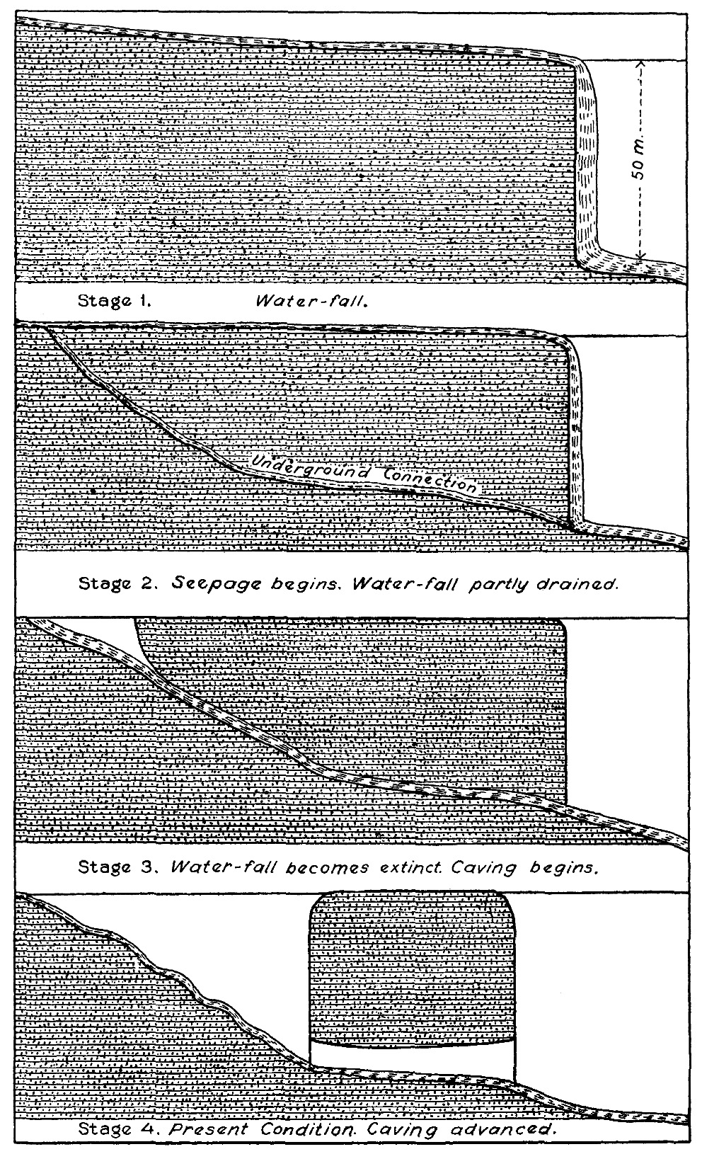 The sketch shows the formation of the Lucsuhin Natural Bridge (locally known as Cabag Cave) in Silang, Cavite in the Philippines.